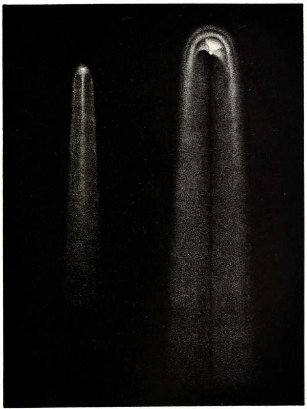 Drawing of the comet C/1874 H1 (Coggia) (as seen on June 10th and July 9th, 1874)